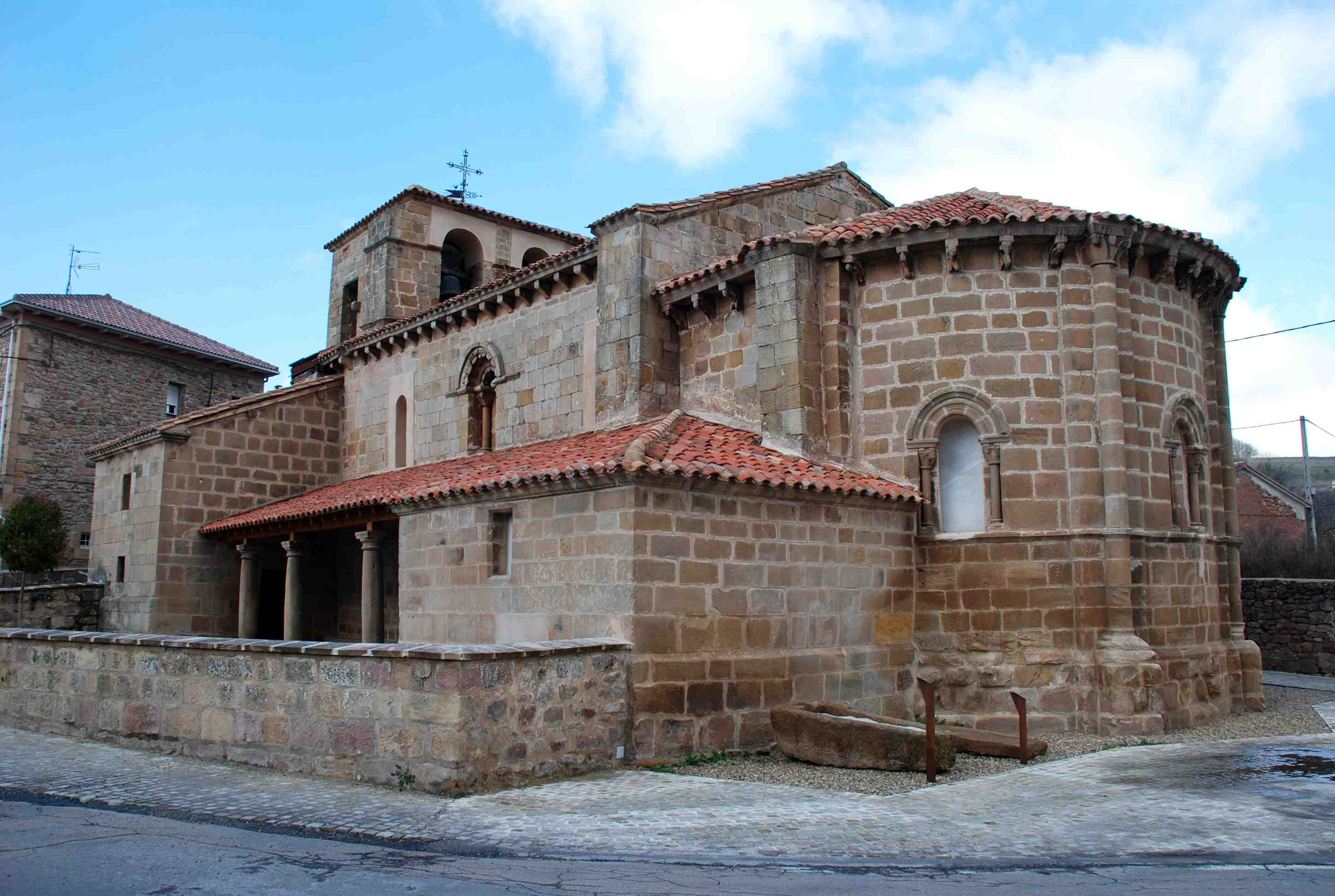 St. Mary's Church in Cillamayor, Palencia, Castile and León). The bulk of the building, but with any subsequent modification corresponds to Romanesque period. However, there is a fragment of the wall on the North, canvas that does not correspond with Romanesque typology of the building or by cutting around you. We do not know its origin, but we can date between late pre-Romanesque and Romanesque incipient. Actual Romanesque period will date the construction of the head of the building. As always, always begins with this part of churches, since after completing, can devote and already begin to officiate the mass in it. We can place around in the mid-12th century by their type.